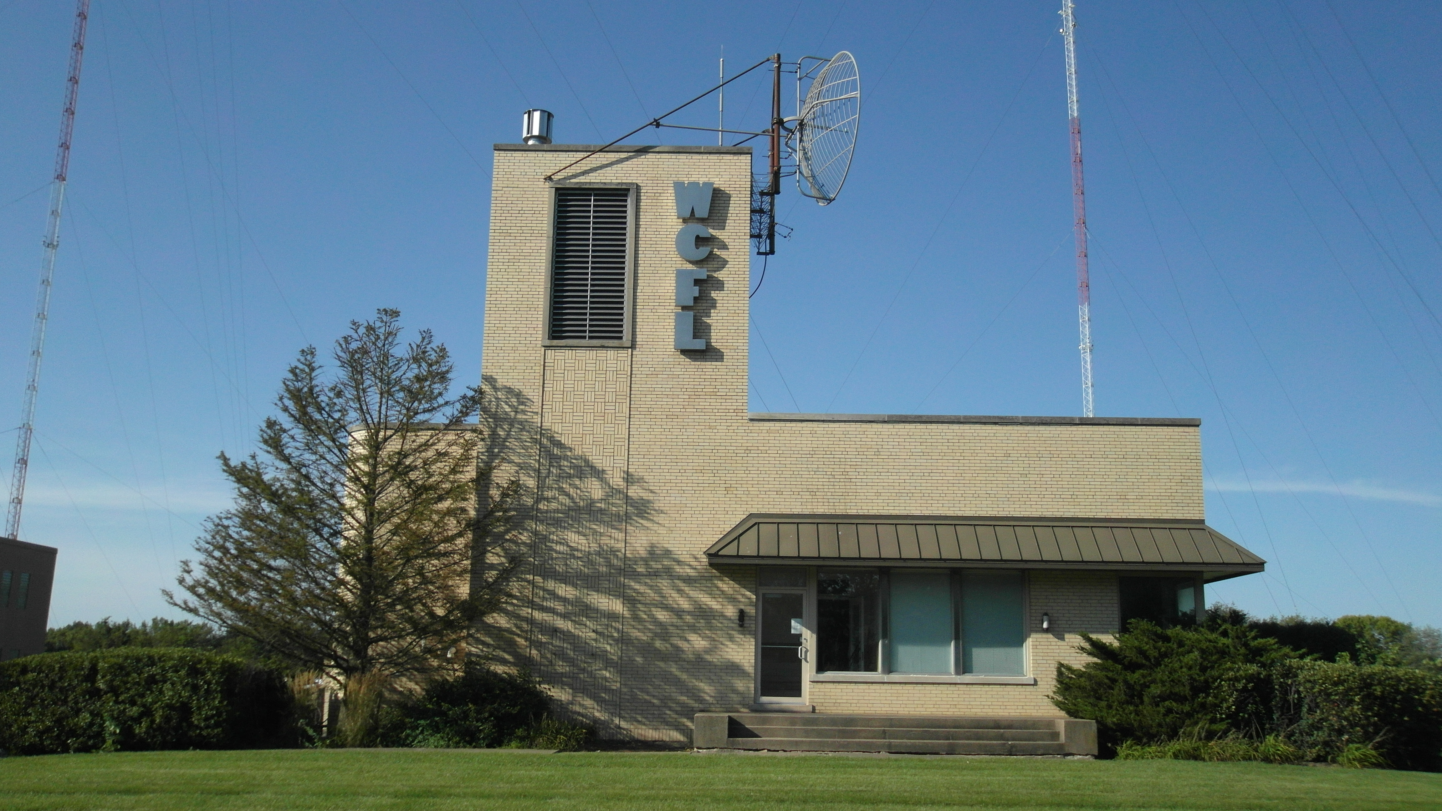 WMVP's transmitter building with the stainless-steel letters of its former call sign, WCFL, in front.